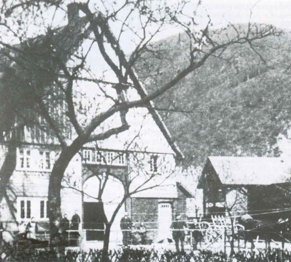 Farmstead in Altenhundem (Sauerland), in which Heinrich Cordes (10.10.1852-24.04.1917) grew up